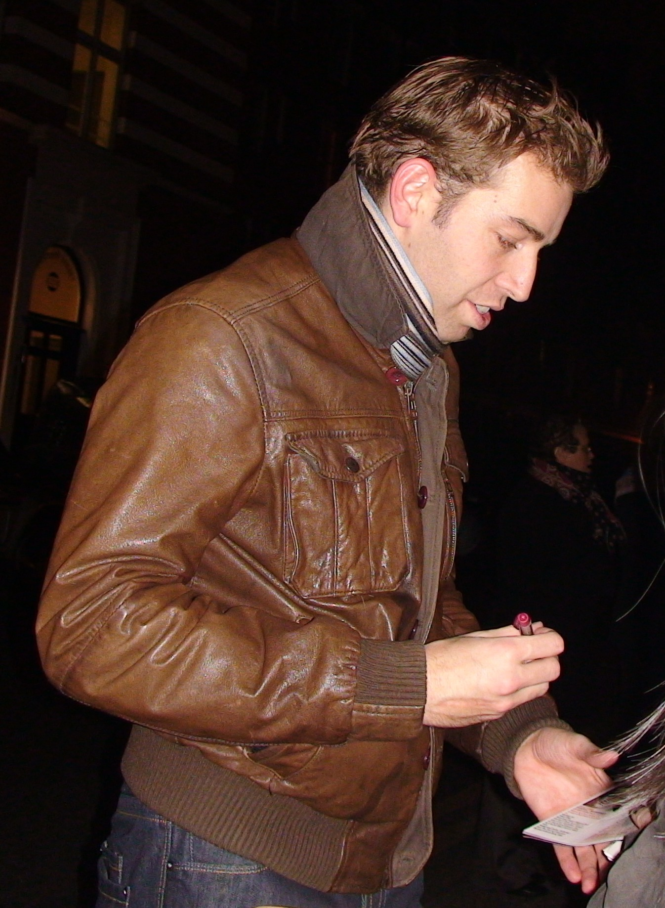 Edward Bennett signing programmes at the Novello Theatre stage door, having played the title role in the RSC's 2008/2009 production of Hamlet.